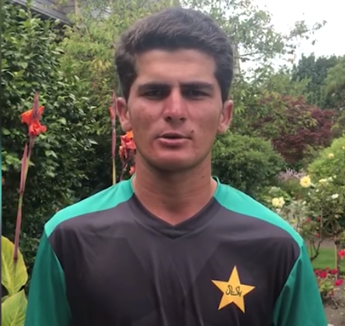 Shaheen Afridi, Pakistani cricketer in 2018.